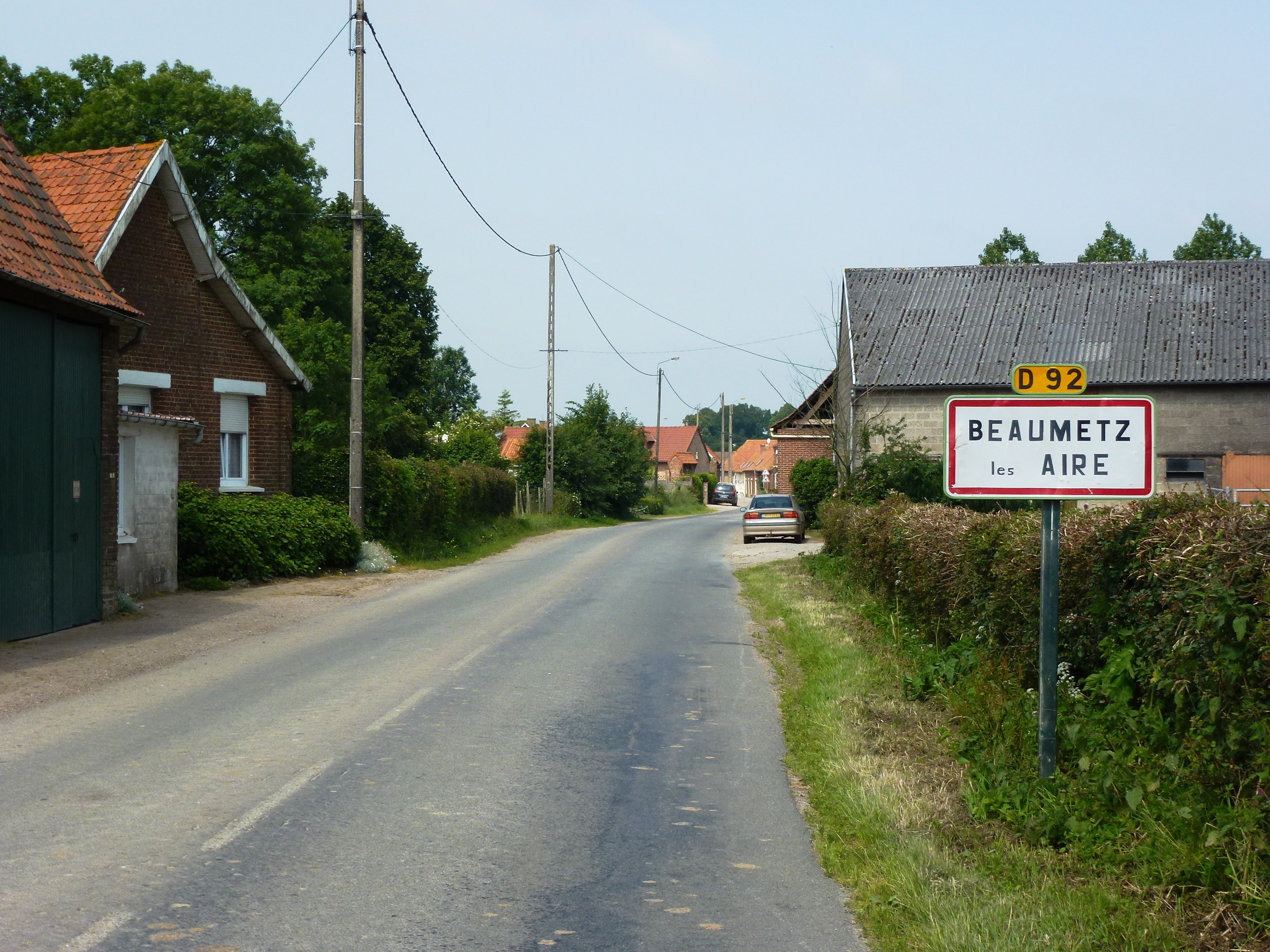 Beaumetz-lès-Aire (Pas-de-Calais, Fr) city limit sign